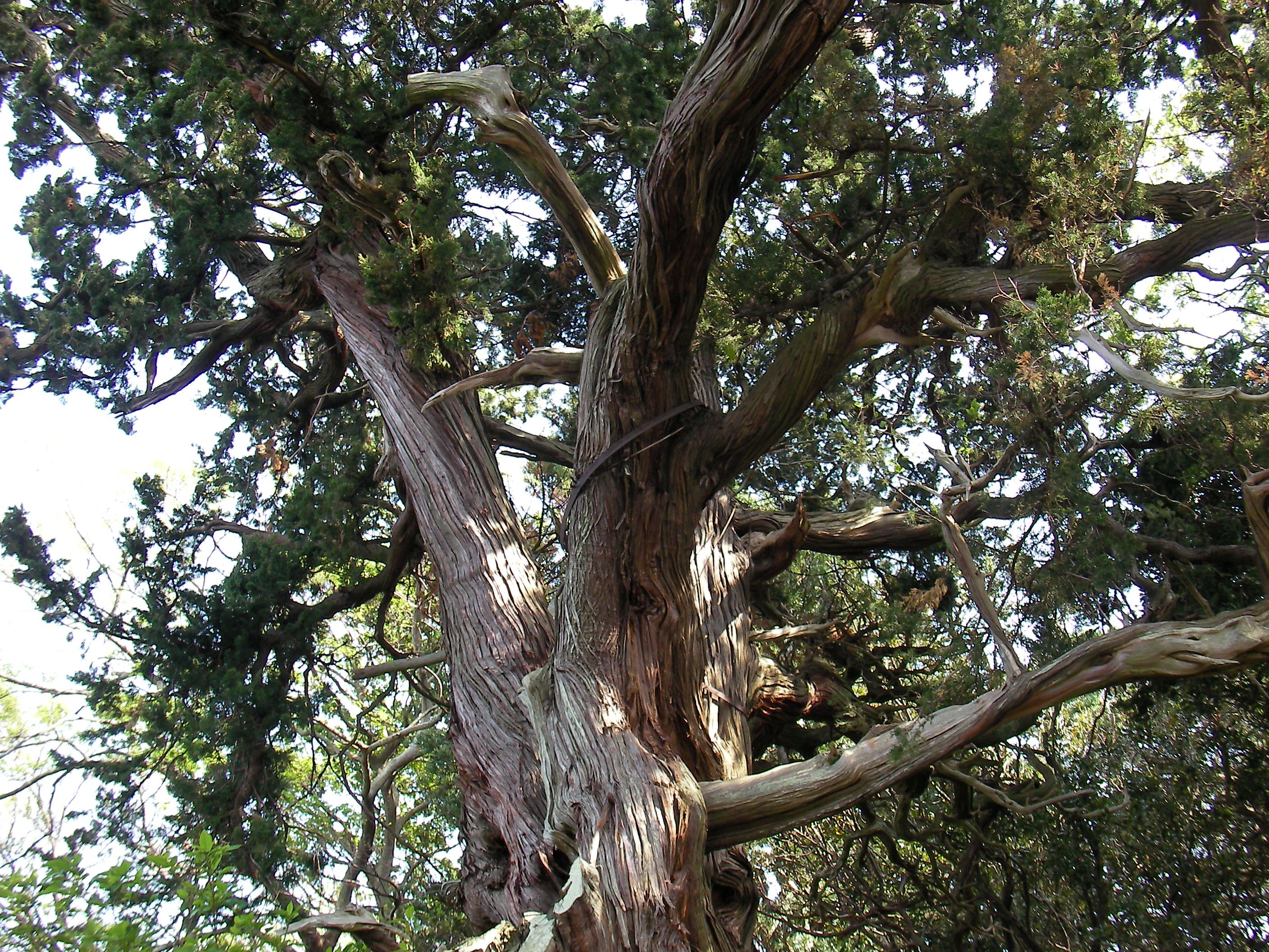 Of ..age of a tree.. 1,500 year. Shizuoka Prefecture Numazu City large rapids cape sacred tree in Japan. 日本の静岡県沼津市は大瀬崎にある国指定の天然記念物「大瀬崎のびゃくしん樹林」のうち引手力命神社御神木に指定された推定樹齢1,500年の古木。幹の周囲は7mに達する。